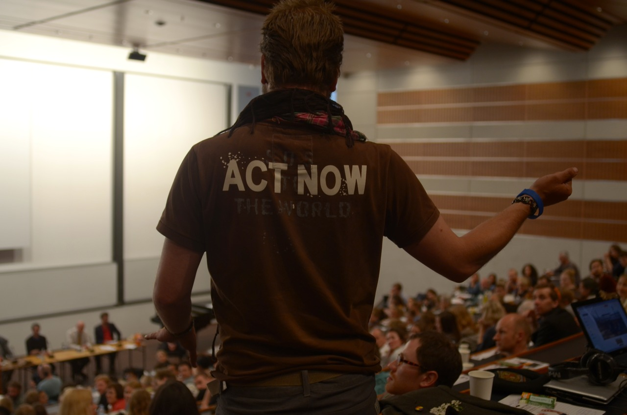 Conference by Occupy Wall Street Copenhagen 2013